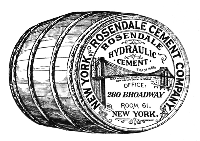 Fac simile of natural cement barrel and label for "Brooklyn Bridge Brand" Rosendale Hydraulic Cement from company letterhead, 1873.